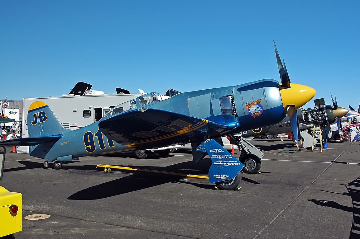 Hawker Sea Fury (registration: N233MB) in Reno, Nevada.